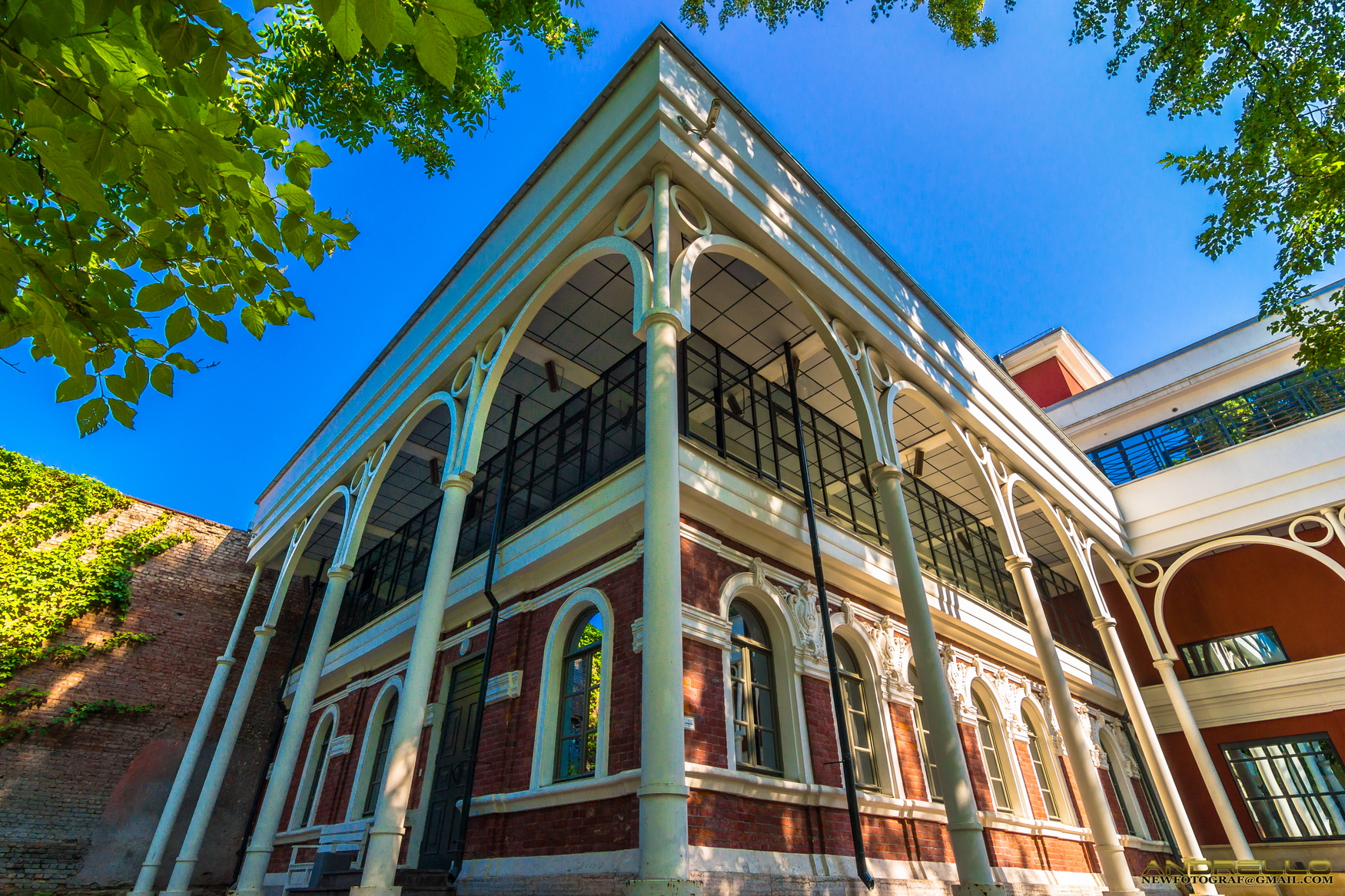 Фасад здания Большой сцены театра